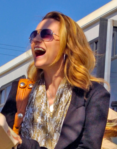 Hilarie Burton, actress from the television show “One Tree Hill,” shakes the hand of a Trooper from Joint Task Force Guantanamo’s Camp 4, June 9. Burton toured the camps and met with Troopers as part her United Service Organization tour here.